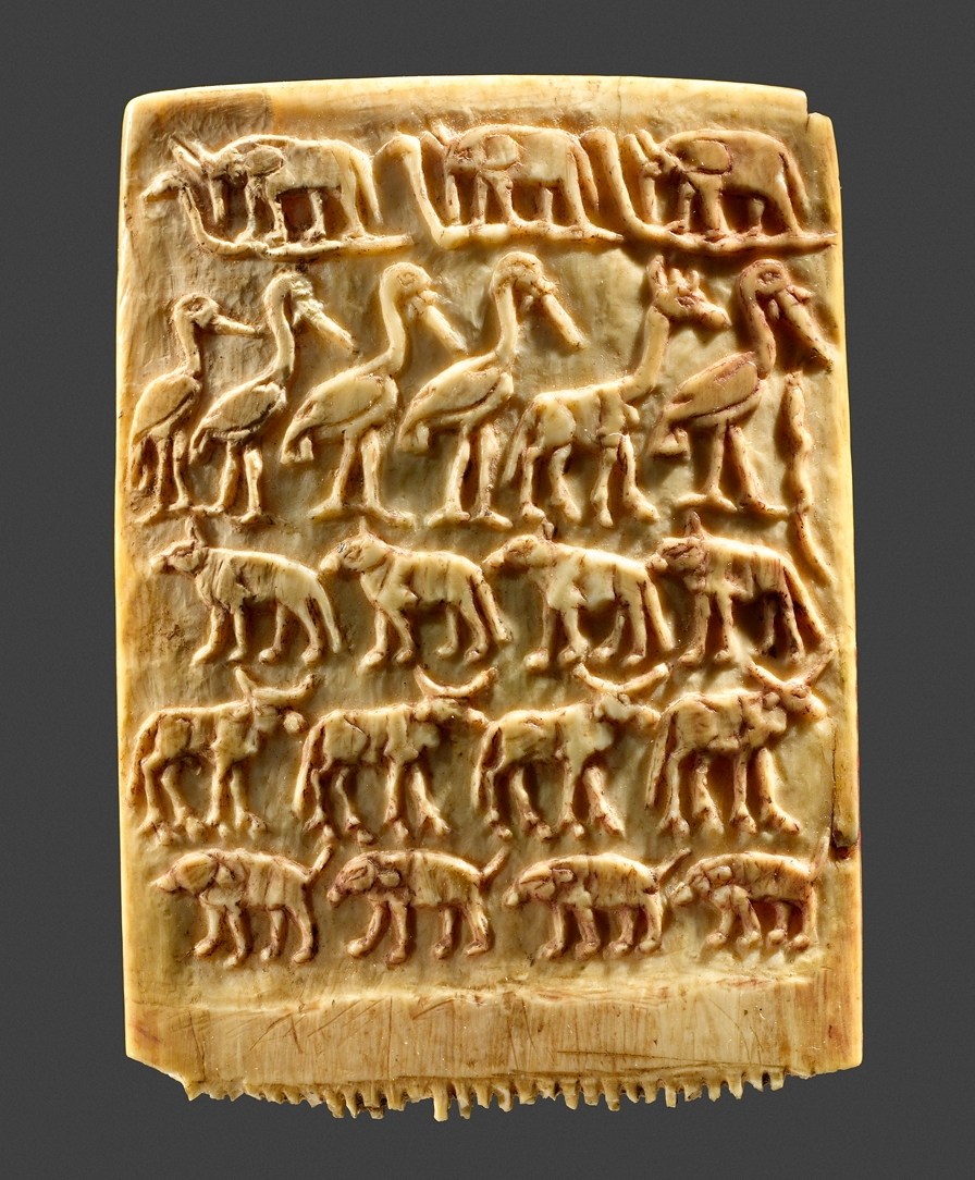 Davis comb, ivory, Predynastic, Late Naqada III, ca. 3200–3100 B.C., Metropolitan Museum of Art, New York, 30.8.224